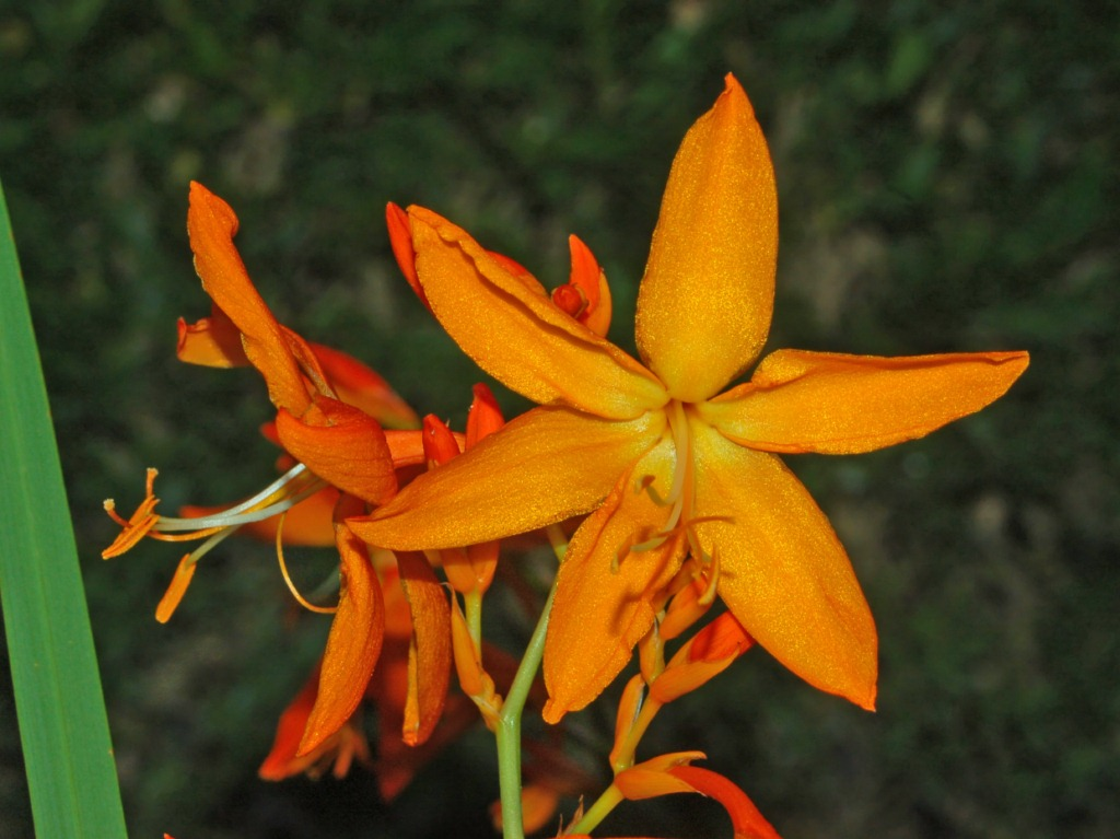 Crocosmia aurea - Jardim botoanico de Lisboa